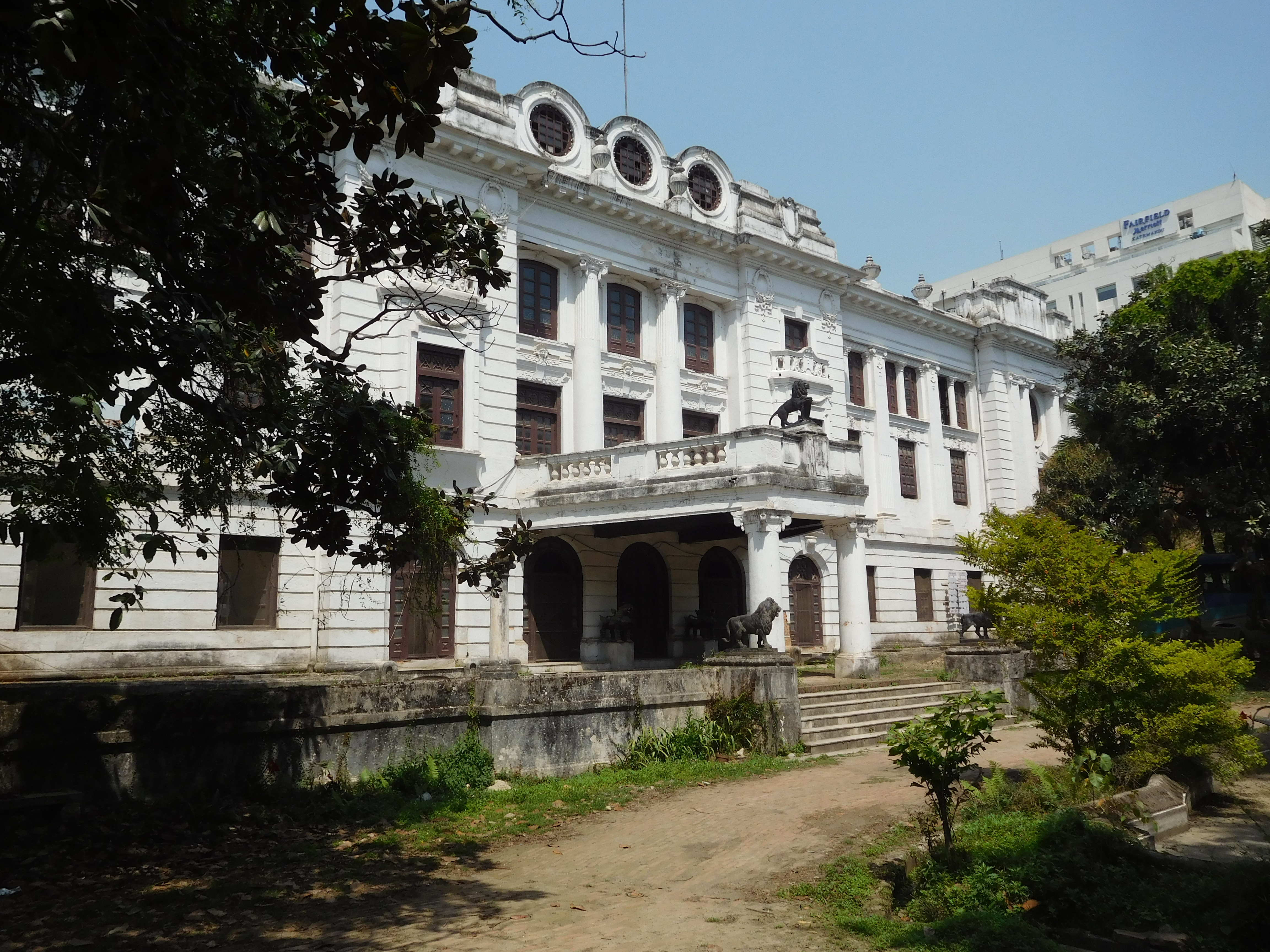 The Kaiser Library is located in the Kaiser Mahal (palace) of Kathmandu